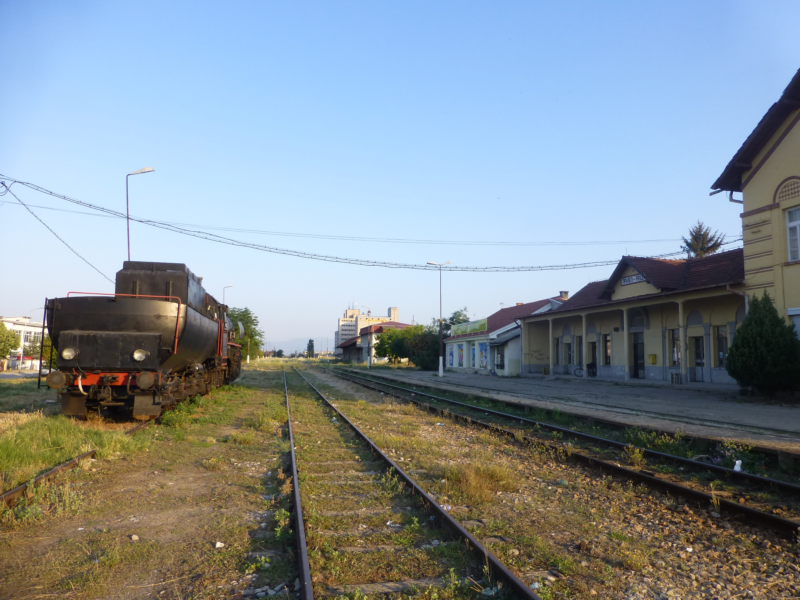 Prilep train station. Passengers are boarding the morning train to Skopje. One can also see a historical steam loco parked on side tracks.